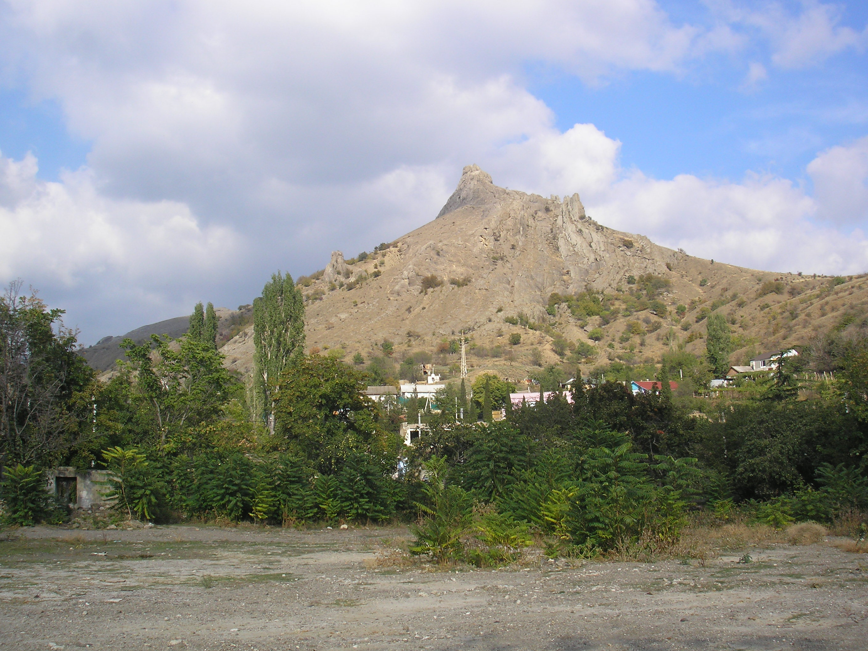 Village Mezhdurechye, Urban District Sudak Republic of Crimea